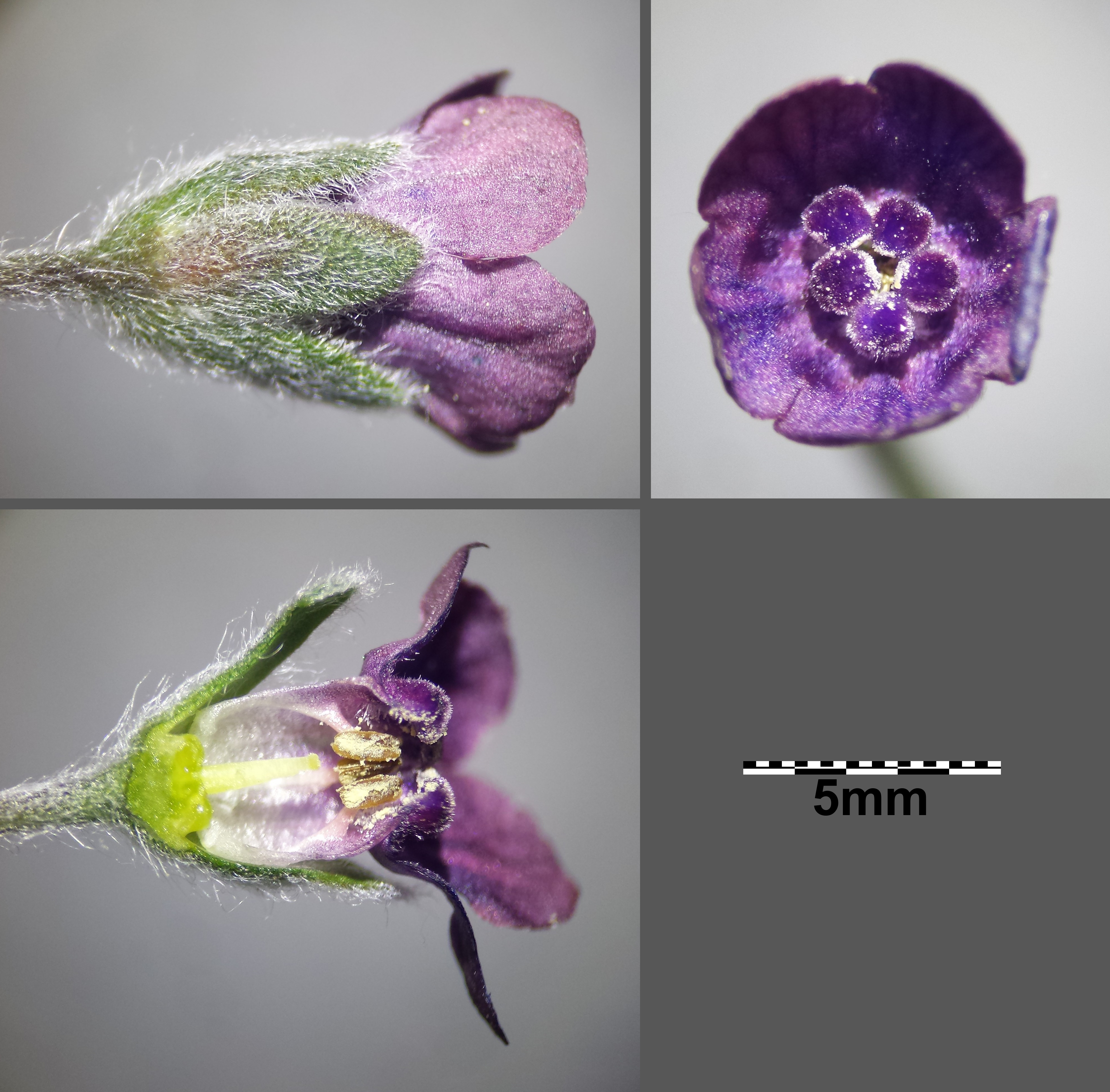 Flower Taxonym: Cynoglossum officinale ss Fischer et al. EfÖLS 2008 ISBN 978-3-85474-187-9 Location: Burgstall to the North of Großmugl, district Korneuburg, Lower Austria - 280 m a.s.l. Habitat: slope